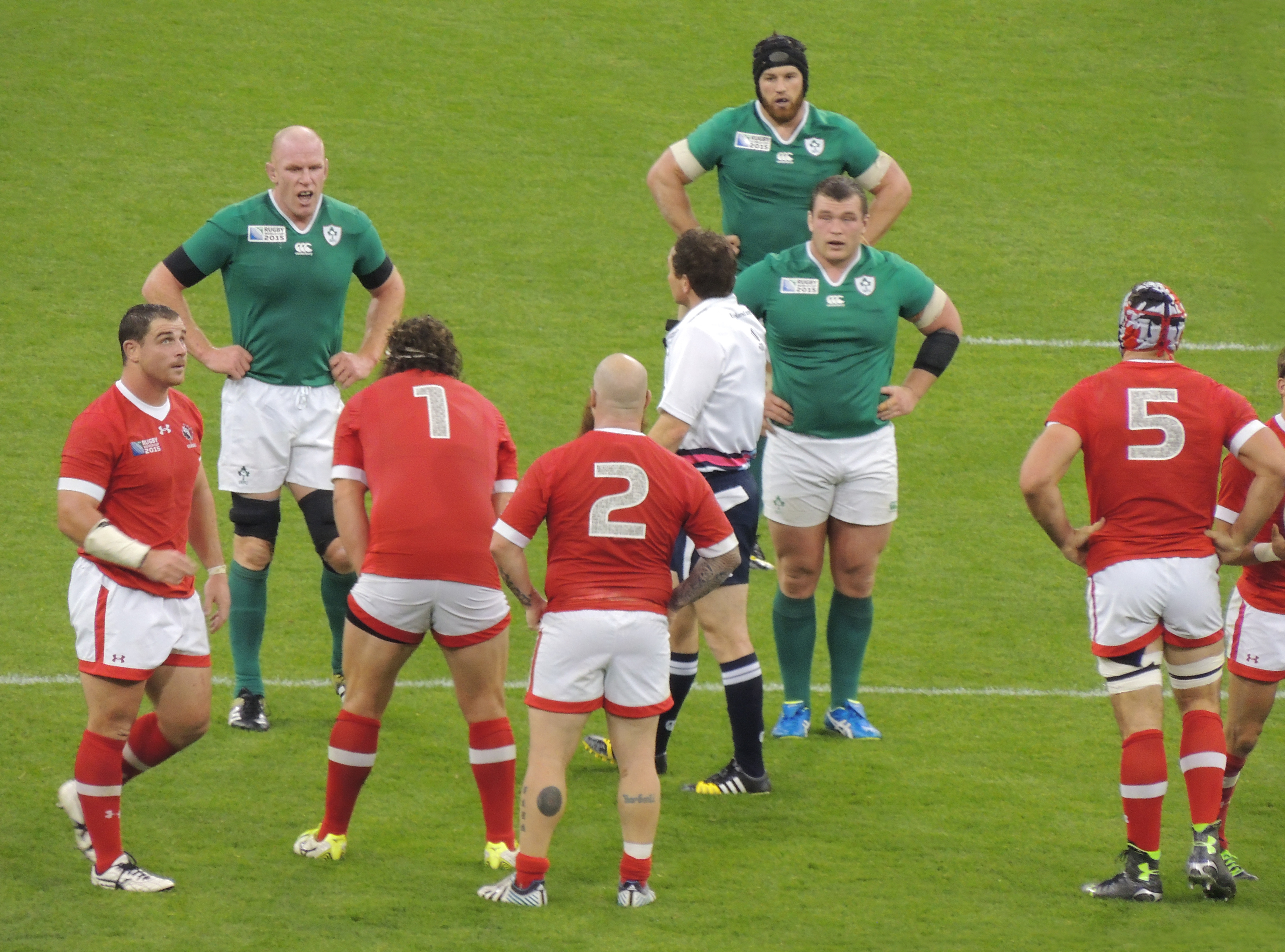 2015 Rugby World Cup game Ireland vs Canada at Millennium Stadium in Cardiff.